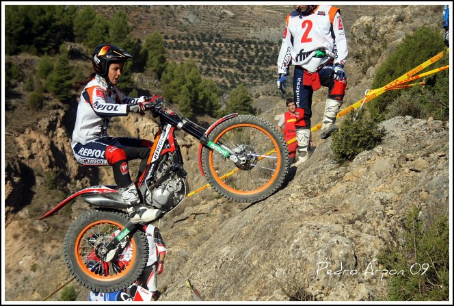 Campeona del mundo por 9ª vez. 2009 Spanish Trials Championship in Arnedillo